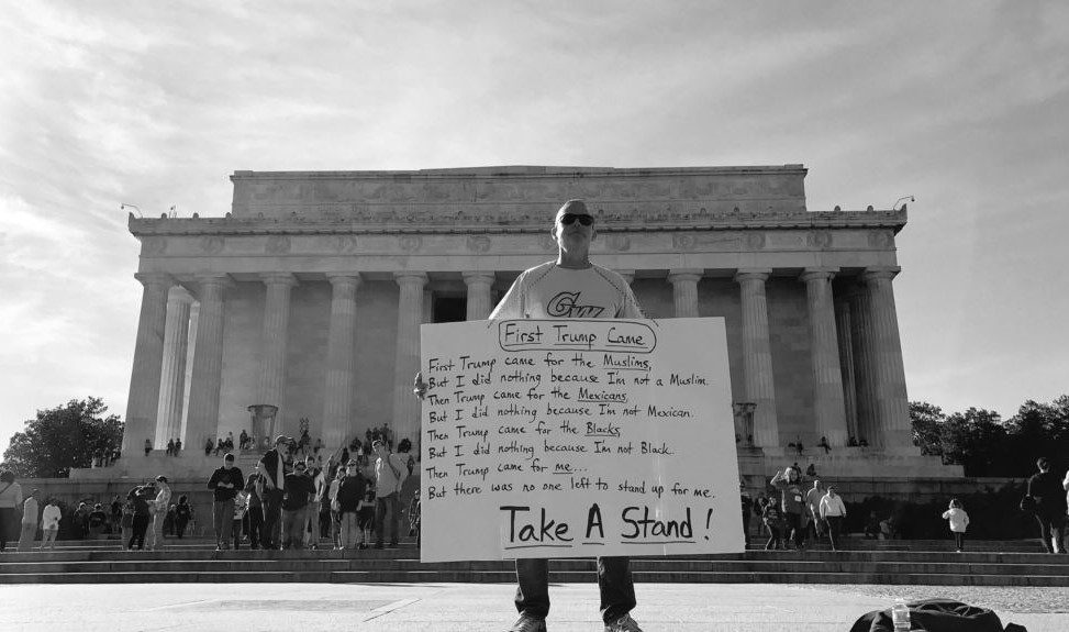 A man stands in front of Lincoln Memorial in Washington, D.C., with a message against President Trump on Presidents' Day, Feb. 20, 2017.